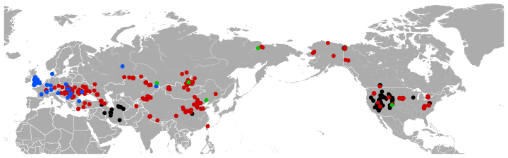 Pika Ochotona sp. fossil distribution. Extinct pikas and Ochotona indet. are red, steppe pika O. pusilla blue, northern pika O. hyperborea green, other extant pikas black. The map was created using the Generic Mapping Tools, GMT, version 5.1.1, and processed with Adobe Photoshop Elements.